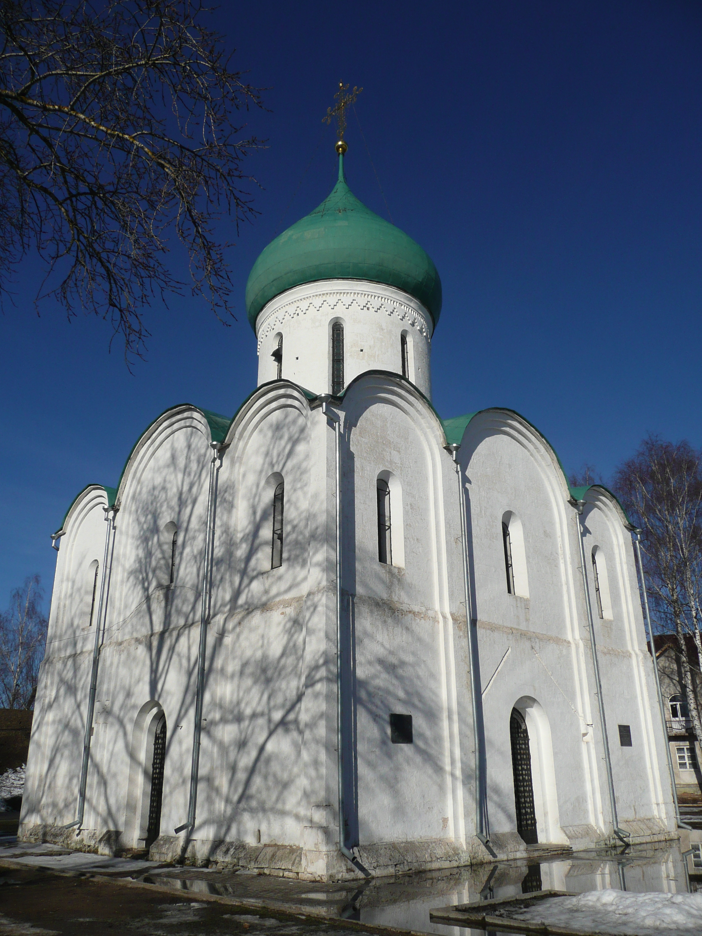 The Cathedral of the Saviour in Pereslavl